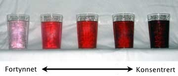 Very simple demonstration of qualitative differences in dye concentration (Norwegian text).